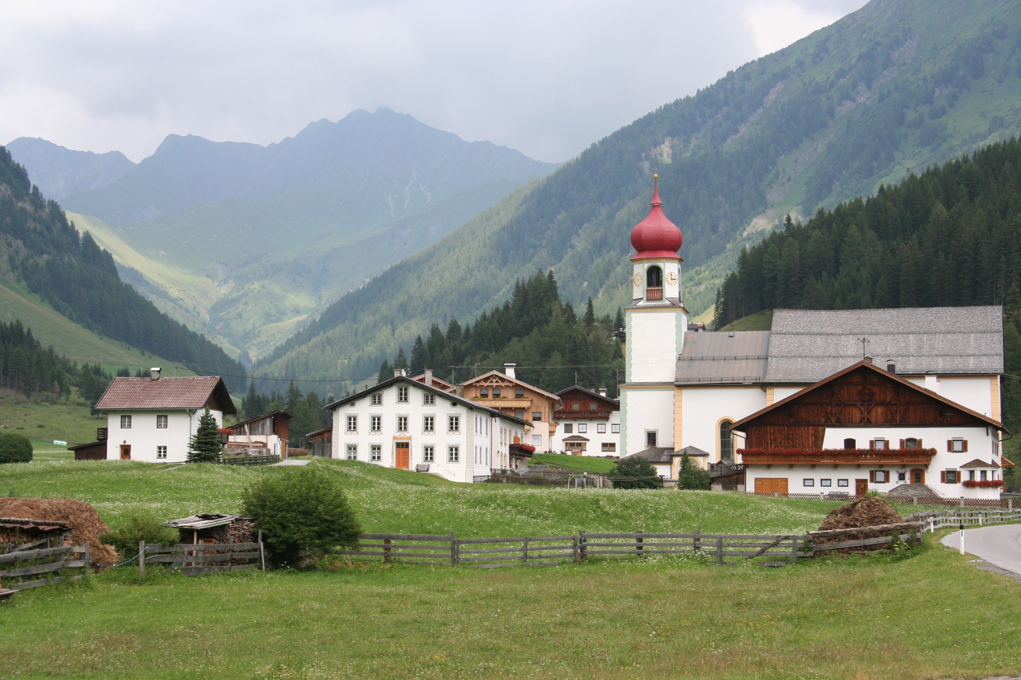 The village Schmirn in Tyrol, Austria, with the parish church of hl. Josef and the rectory.